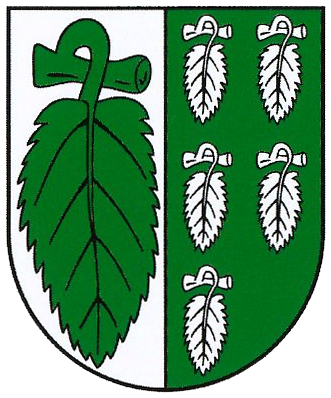 Coat of Arms of Bucha First upload in de-wp: Huenny (11:45, 26. Jul. 2006)